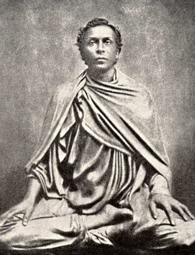 Srimath Anagarika Dharmapalaසිංහල: අනගාරික ධර්මපාලතුමා